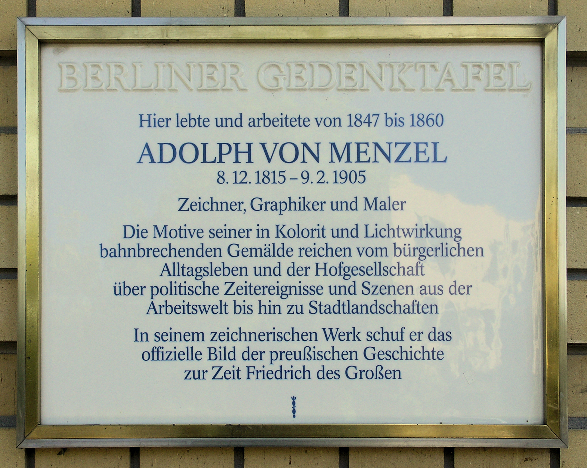 Berlin memorial plaque, Adolph Menzel, Ritterstraße 43, Berlin-Kreuzberg, Germany Koordinate:52°30′14″N 13°24′7″E / 52.50389°N 13.40194°E